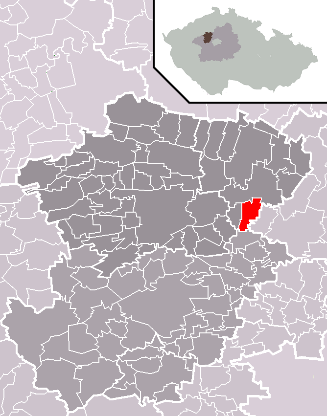 Location of Neuměřice municipality within Kladno District and administrative area of Slaný as a Municipality with Extended Competence.